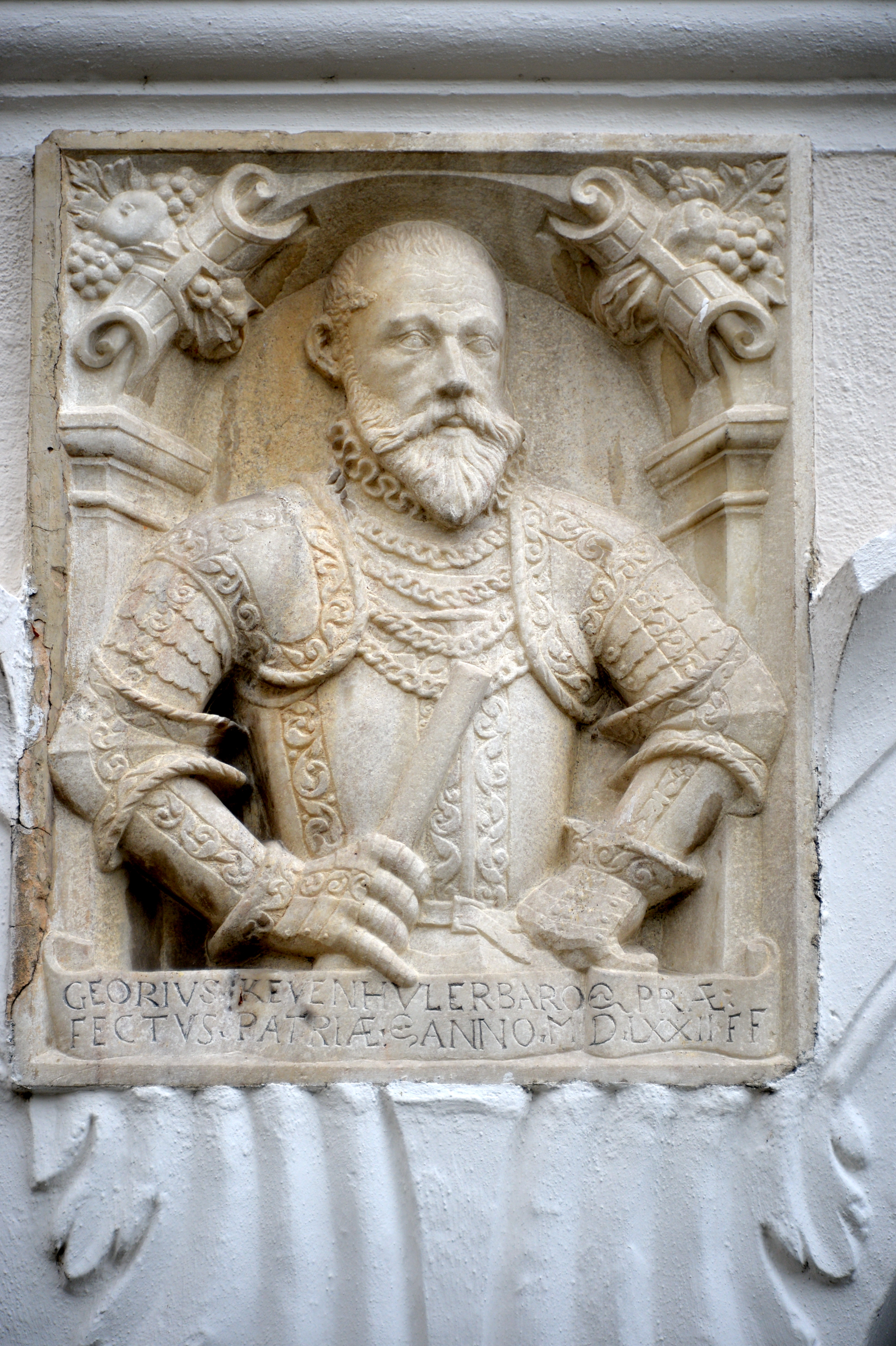 Relief of the castle-builder Georg Khevenhüller (dated 1572) at the arcade yard of castle Wernberg, Klosterweg #2, municipality Wernberg, district Villach Land, Carinthia, Austria, EU